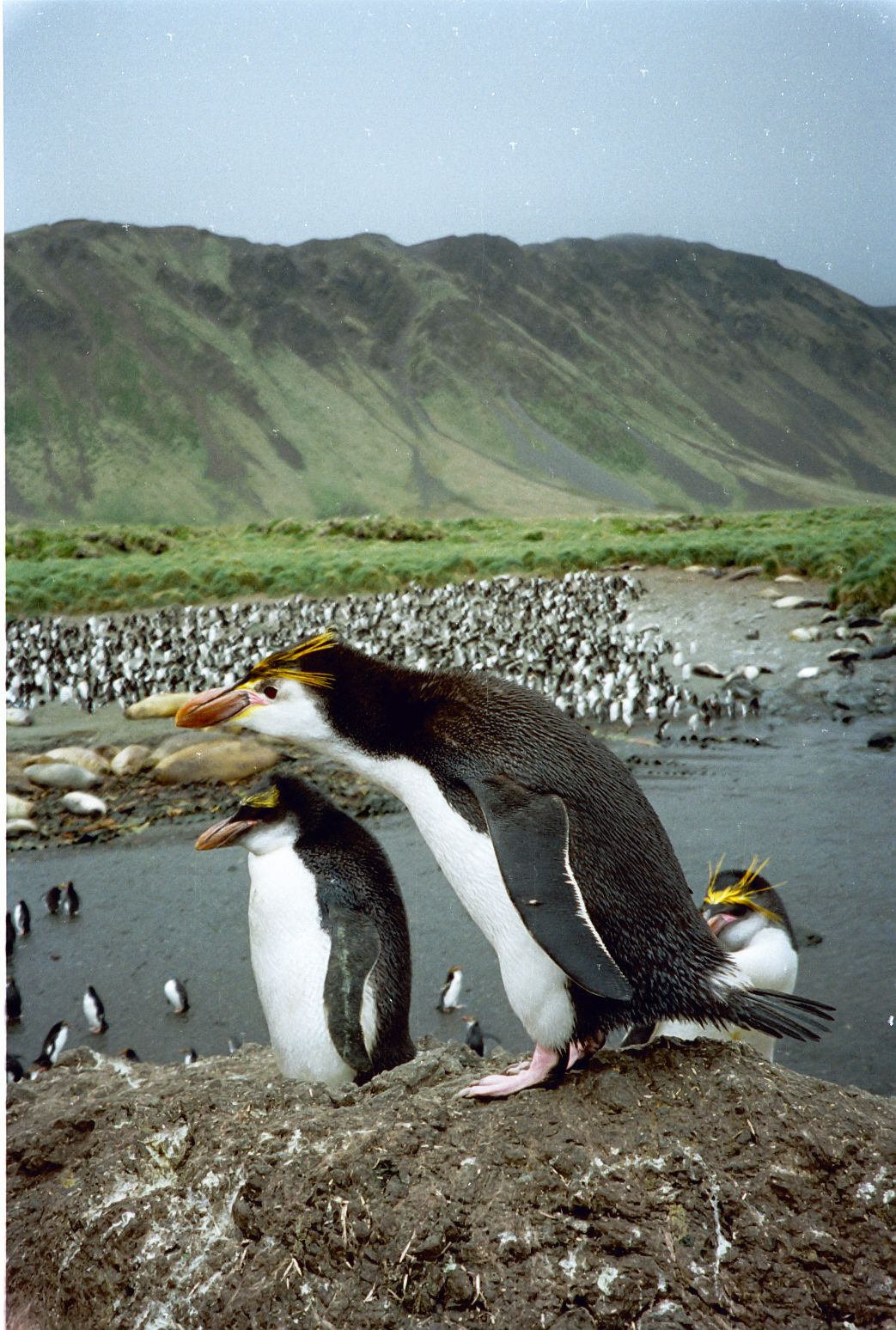 Royal Penguins on Macquarie Island west coast.